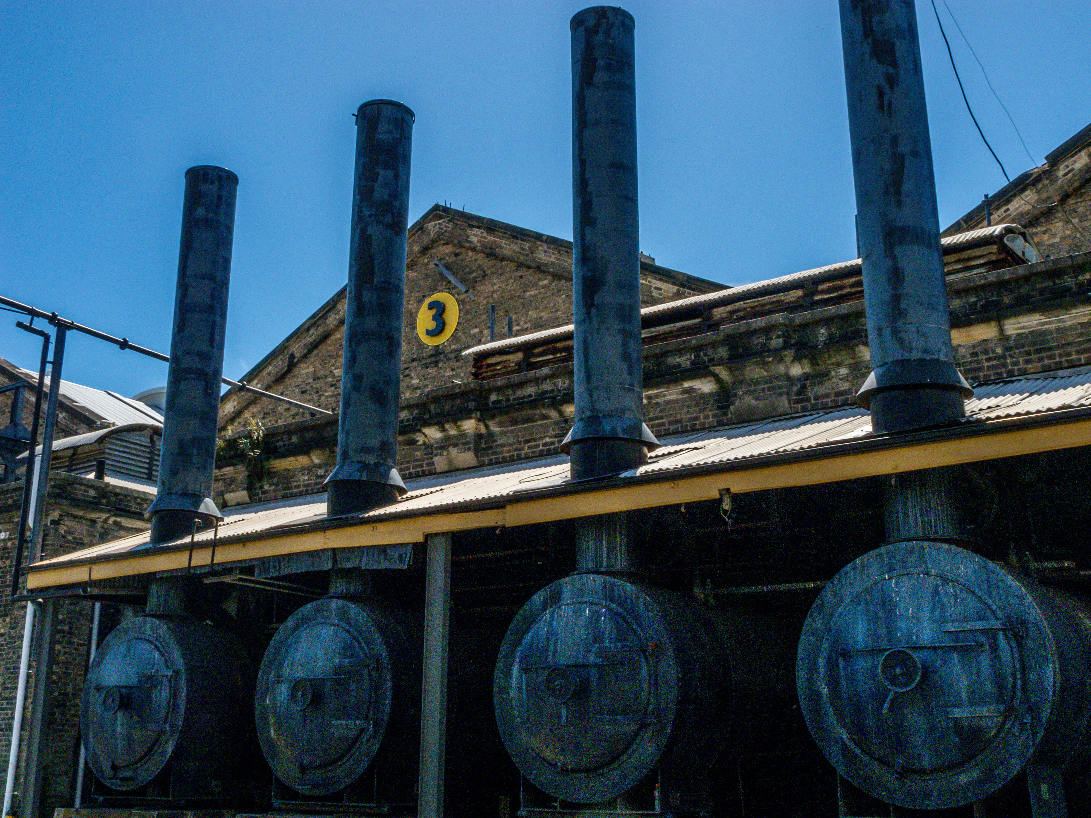 Eveleigh Railway Workshops Boiler House